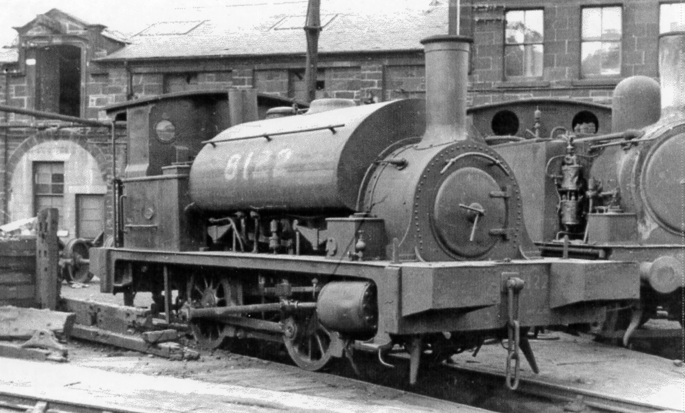 Ex-NBR Y9 Dock 0-4-0T at St Margarets Locomotive Depot Along with other small tank-engines round the un-roofed turntable on the north side of the main line is No. 8122, NBR class G (LNER Y9) No. 546 (LNER No. 9546, No. 8112 in 1946), built 8/1899, withdrawn 8/55. Note the wooden buffers, used on little Docks engines. On the right is one of the two ex-GE F7 2-4-2Ts (Nos. 7093/4) which had come north - for some unknown reason - about 15 years previously. (See also NT2874 : An 0-6-0 Dock Tank at St Margarets Locomotive Depot).